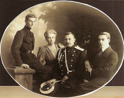 The Yusupov family. Prince Nicholas, Princess Zinaida, Count Felix Felixovich Sumarоkov-Elston and Prince Felix